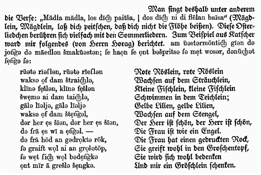 Text in Silesian dialect. High German intros: Man ſingt deshalb unter anderem die Verſe: and Zum Beiſpiel aus Katſcher ward mir folgendes (von Herrn Horag) berichtet.